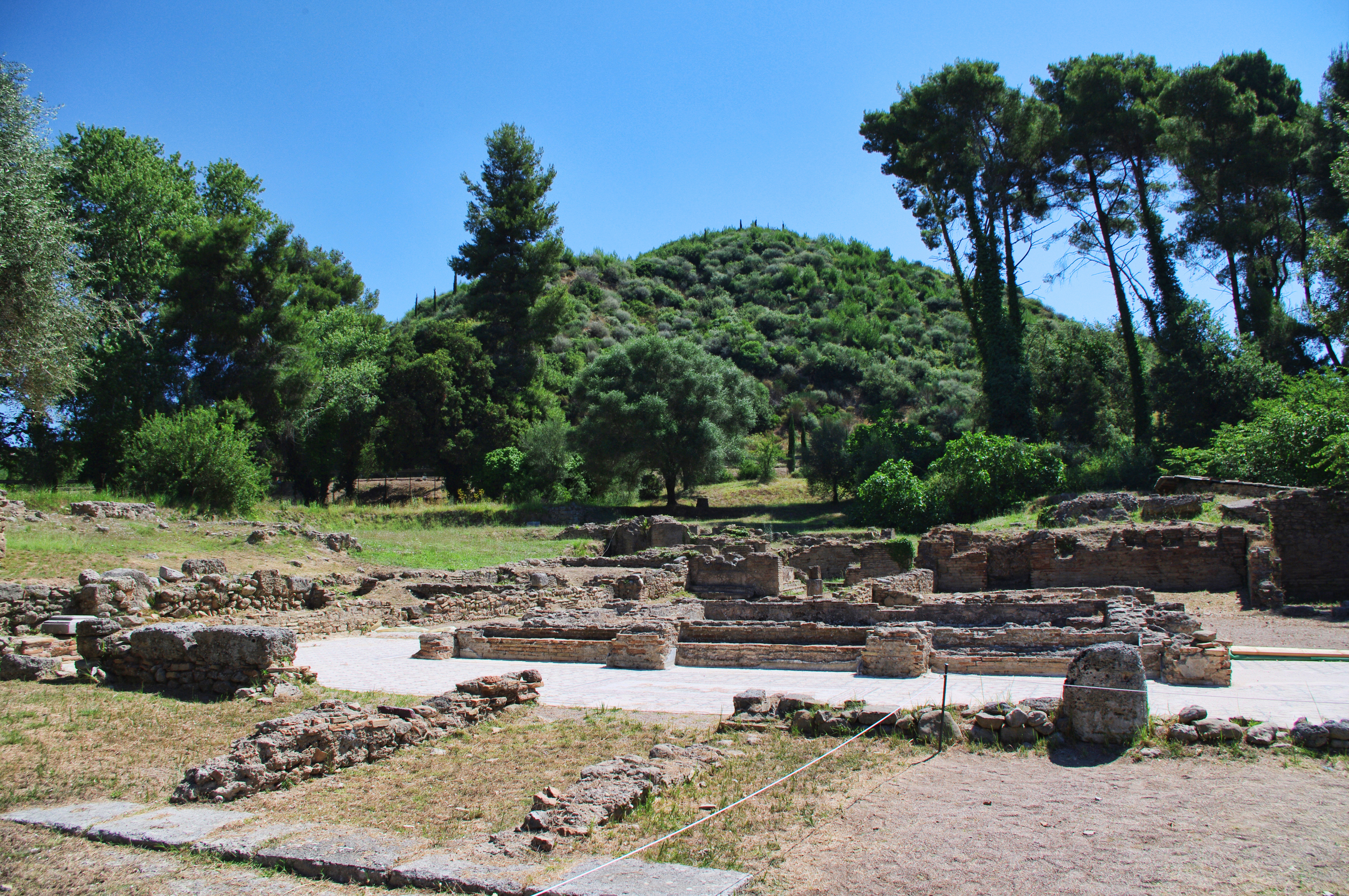 Kronios baths or north baths«Θέρμες Κρονίου»